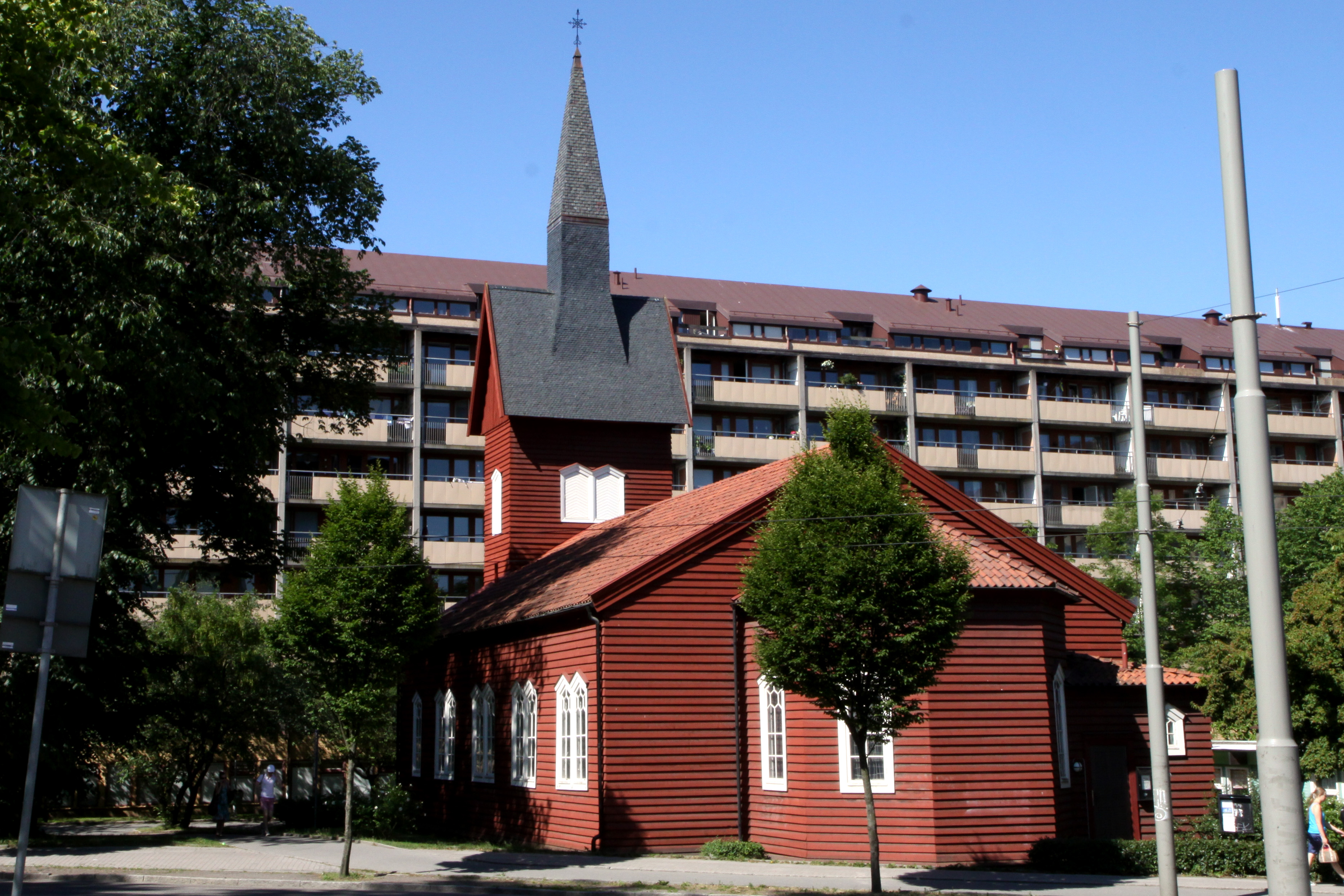 Landala kapell (chapel) in Gothenburg, Sweden